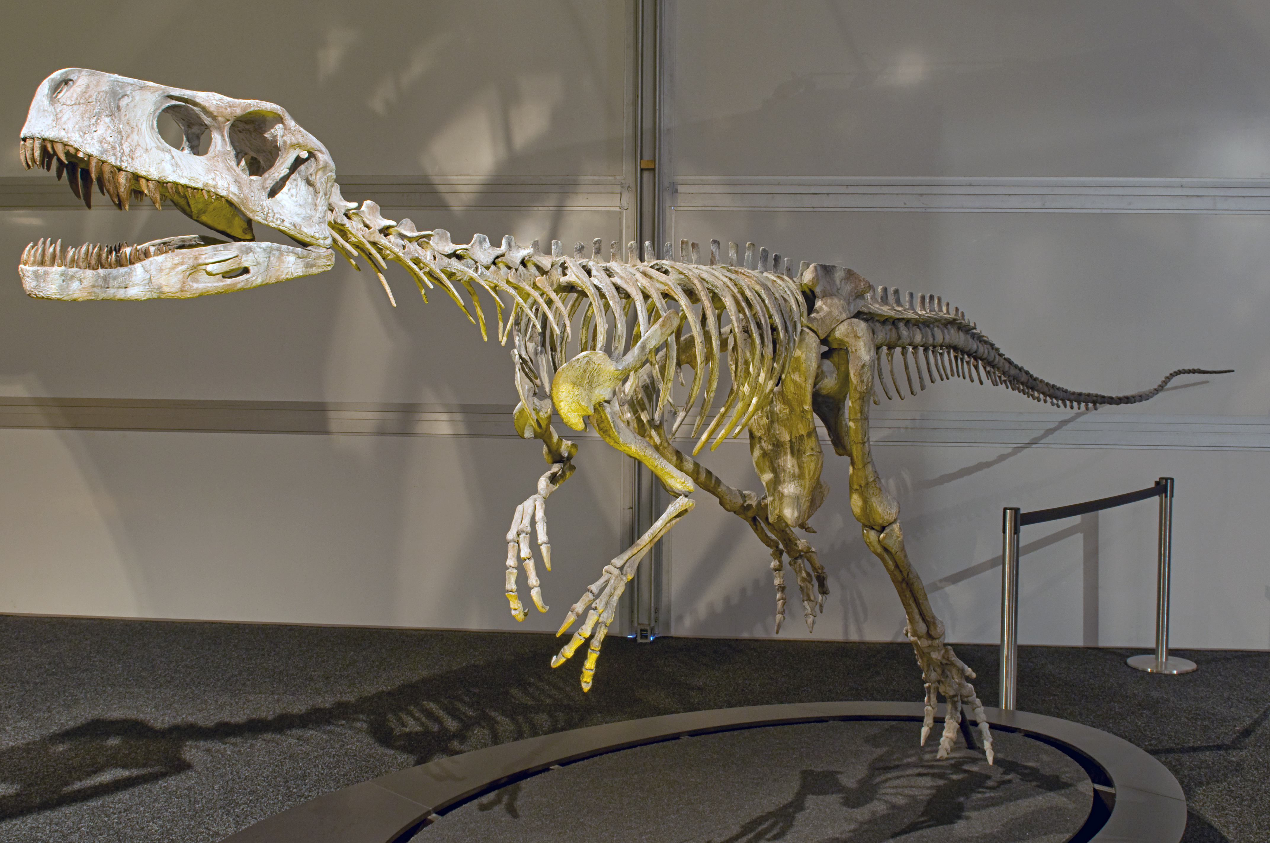 Skeleton replica of a Frenguellisaurus ischigualastensis